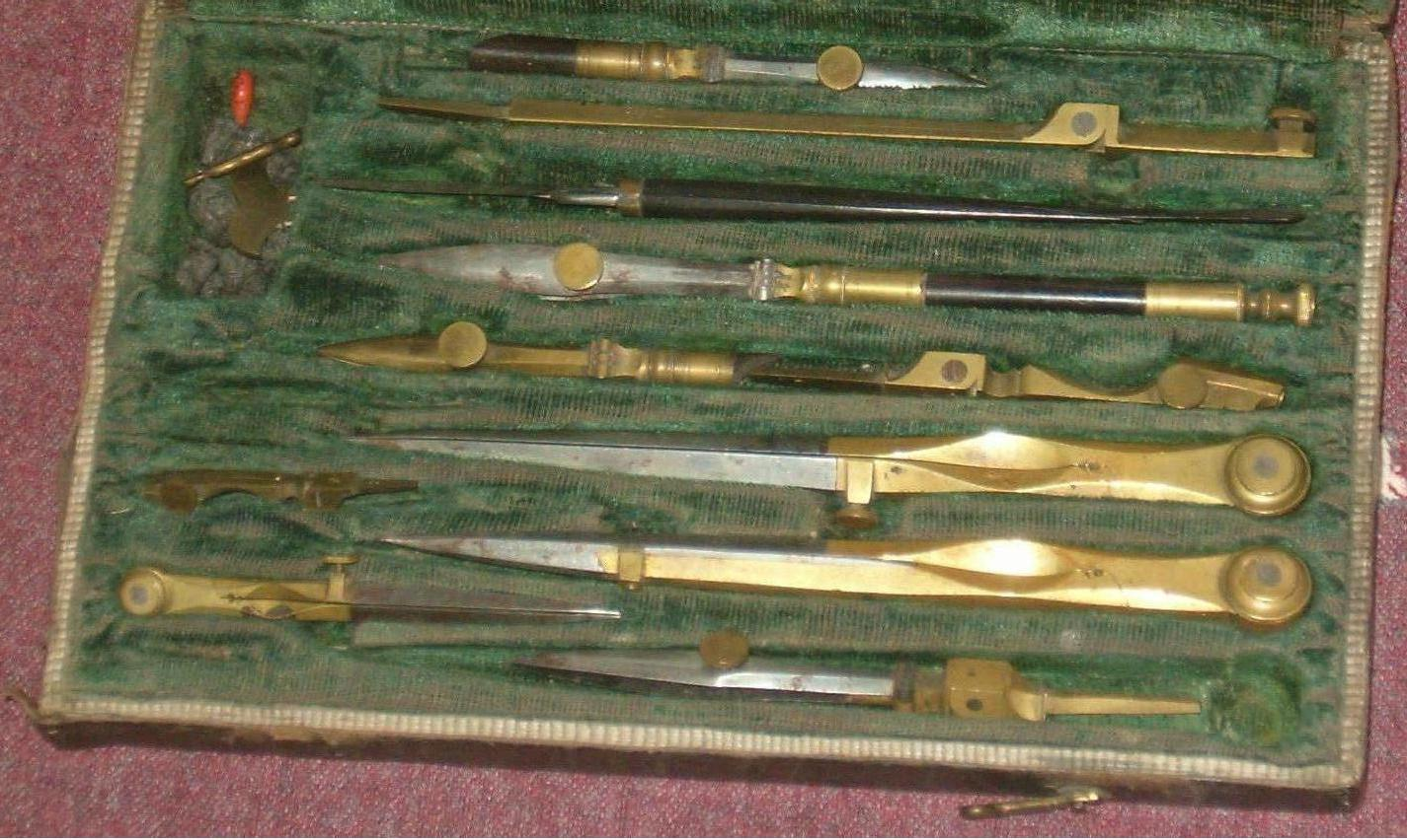 Set of compasses of János Bolyai, Hungarian mathematician; can be found in the Museum of Bolyai, Marosvásárhely.